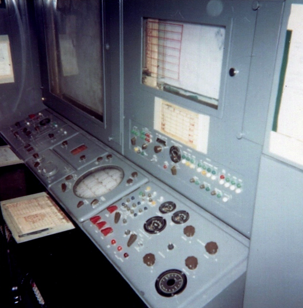 Improved Nike-Hercules Battery Control Console at Nike Site NY93/94, Franklin Lakes NJ, late 1960s